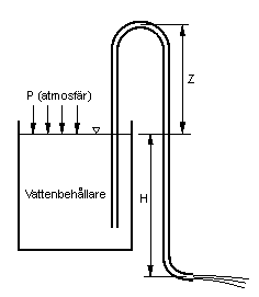 Häverteffekten med vätska. Figure to show the principle of the Siphon effect.